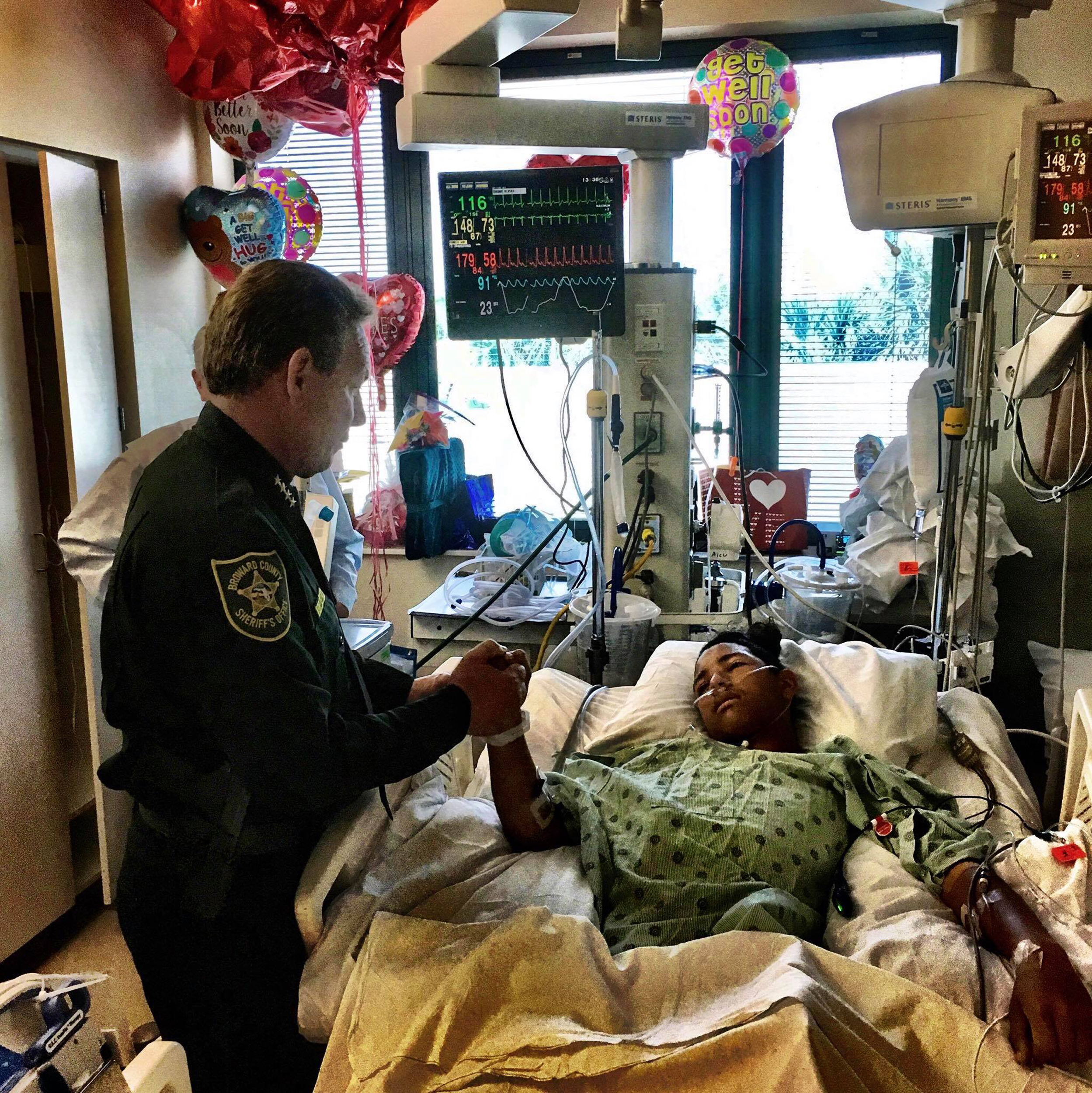 Broward County Sheriff Scott Israel visits Parkland shooting survivor Anthony Borges in the hospital on Feb. 18, 2018.